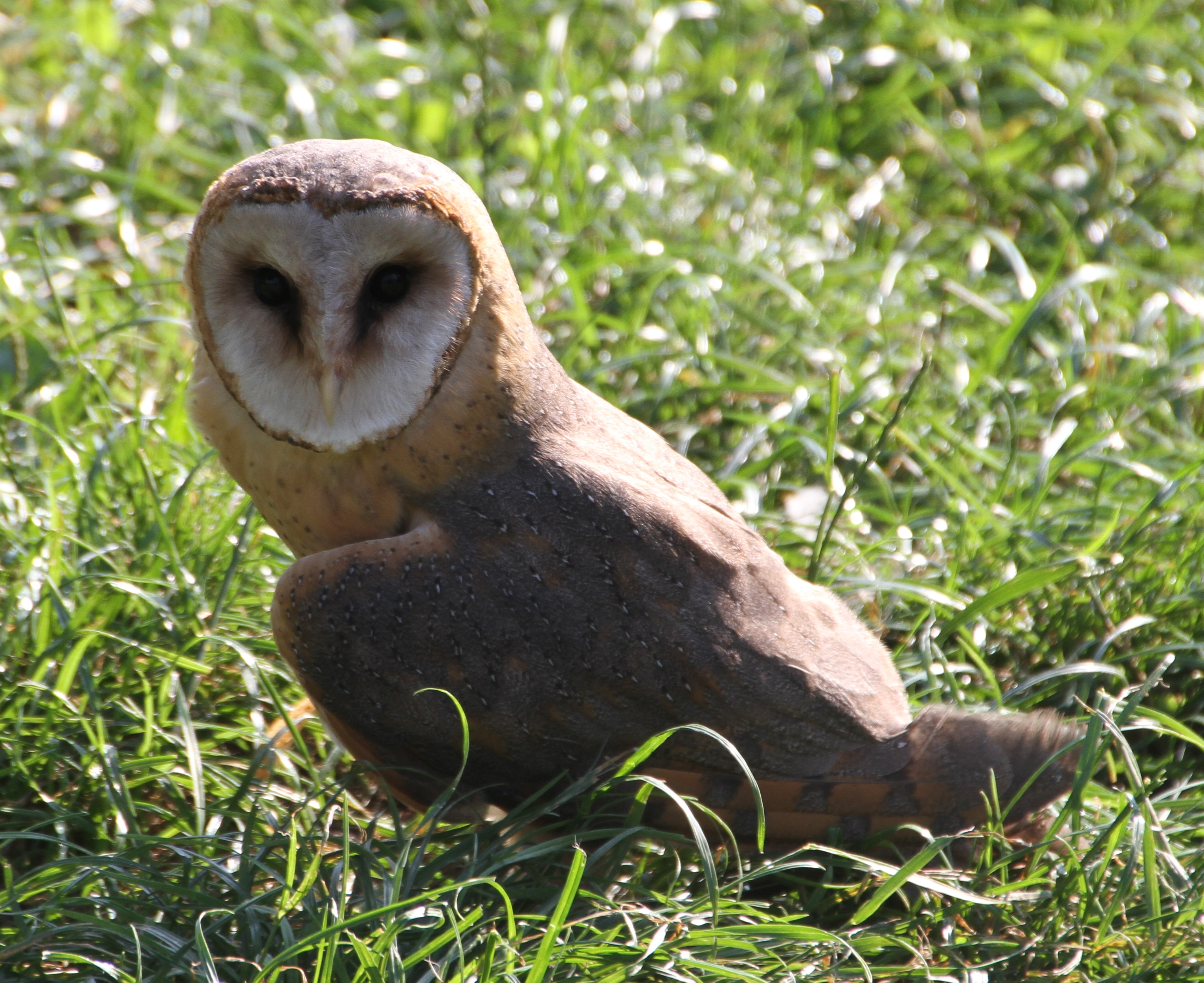 The Central Europe Barn Owl (de: Mitteleuropäische Schleiereule), is a subspecies (Tyto alba guttata) of the Barn Owl (Tyto alba) - living in central and southeastern Europe. Here in Predjama, Slovenia